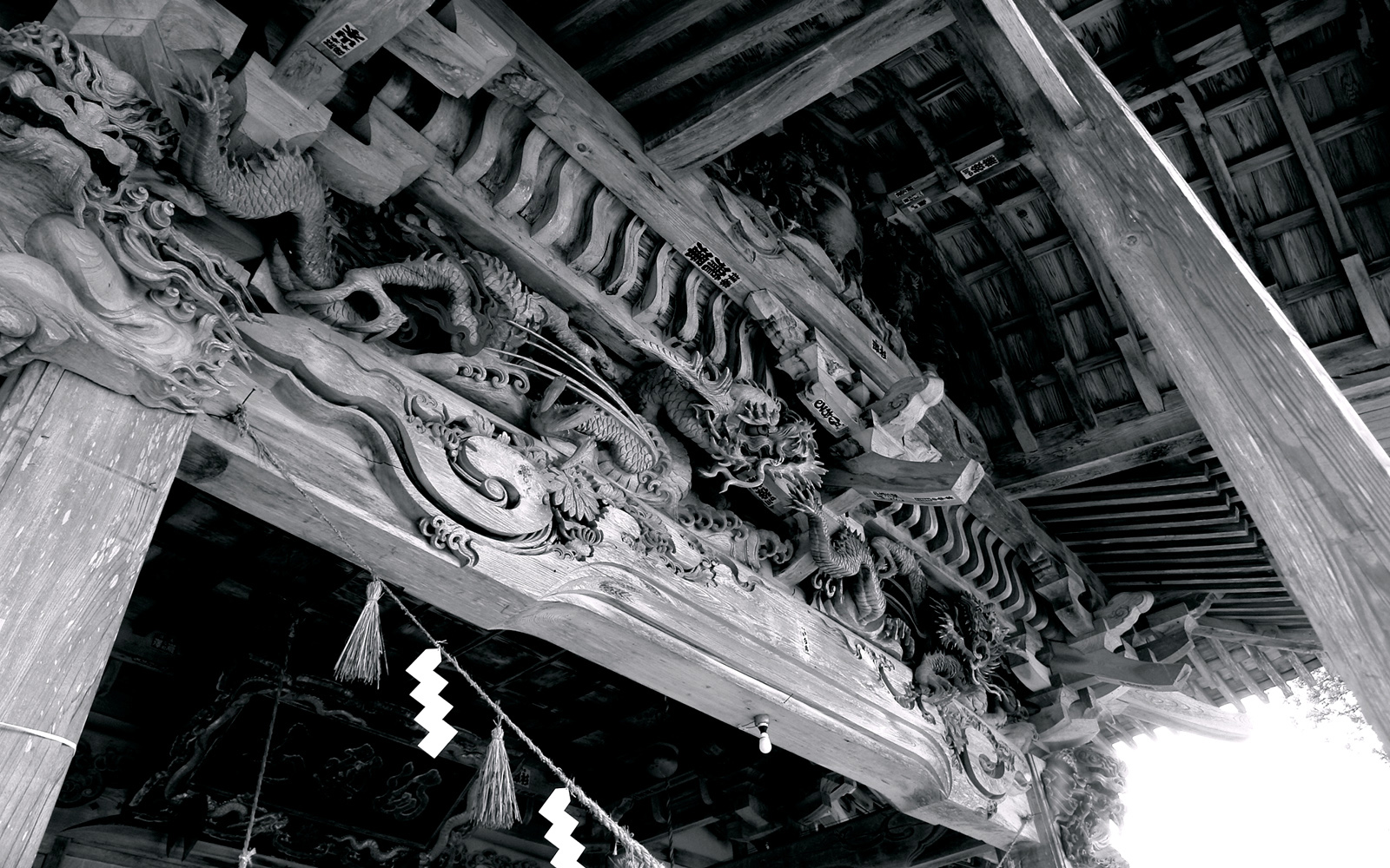 Iwanesawasanzan jinja's beam